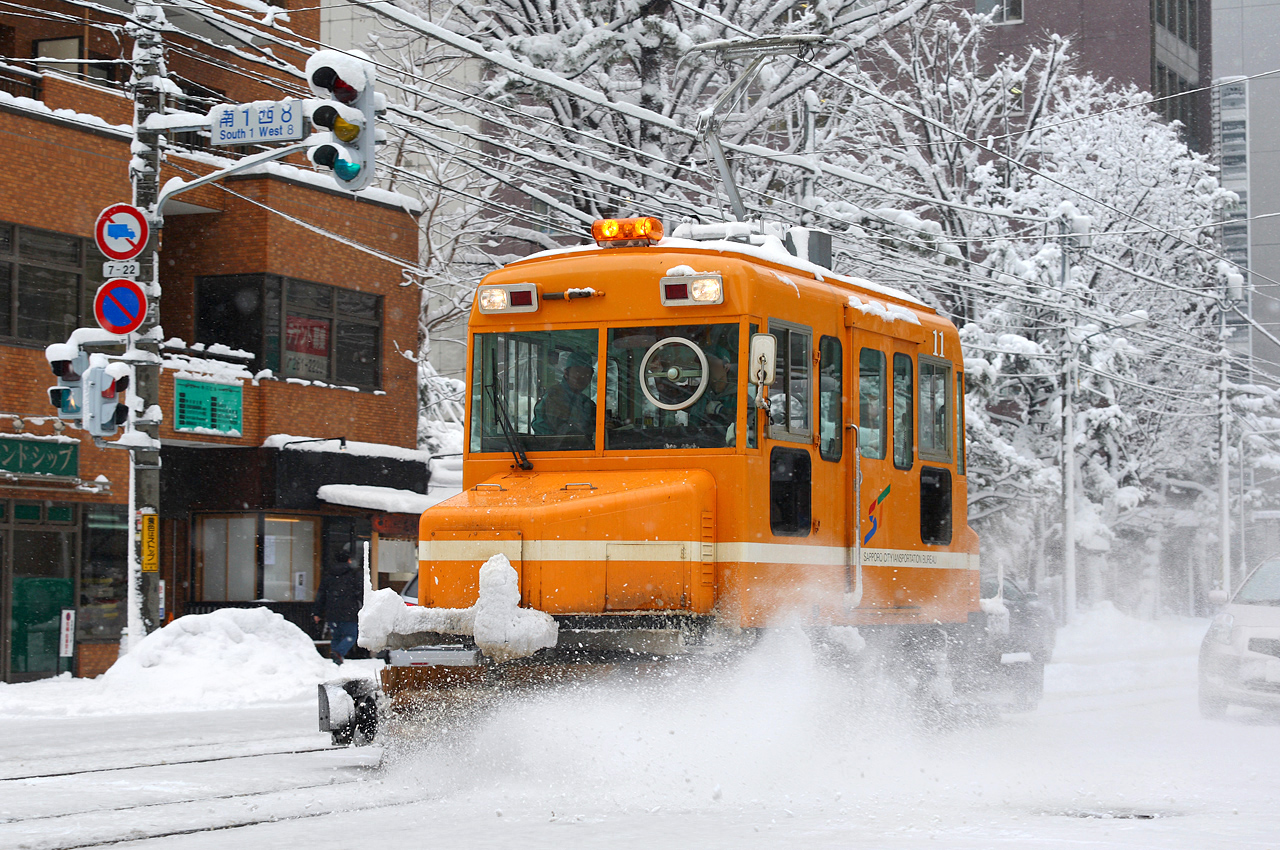 Sapporo Tram Type Yuki 10 ( No.11 ) snow broom car in action.